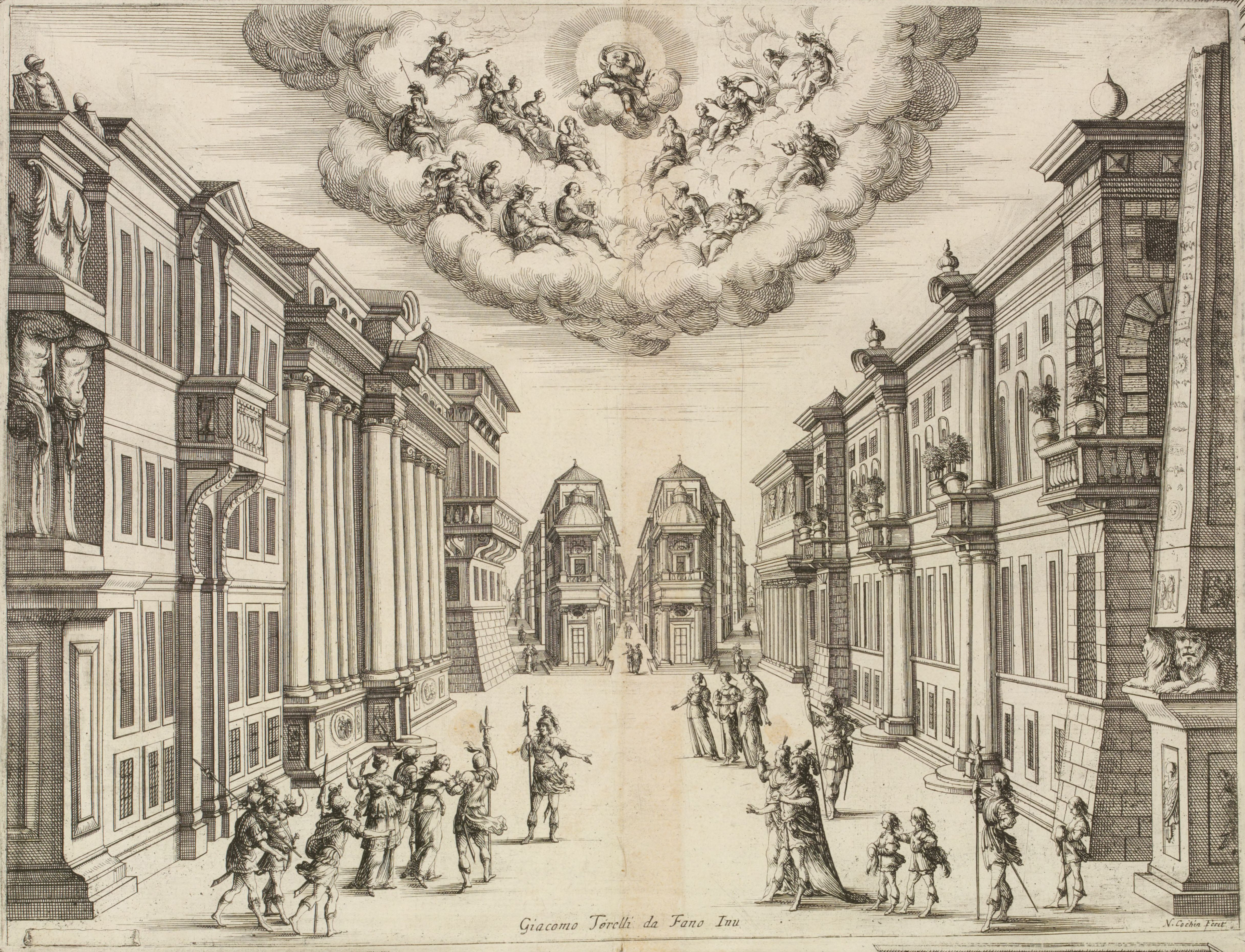 Set design for Feste theatrali per la Finta pazza , drama del sigr Giulio Strozzi, rappresentate nel Piccolo Borbone in Parigi quest anno 1645 et da Giacomo Torelli, words by Giulio Strozzi and engravings of the set designs by Giacomo Torelli